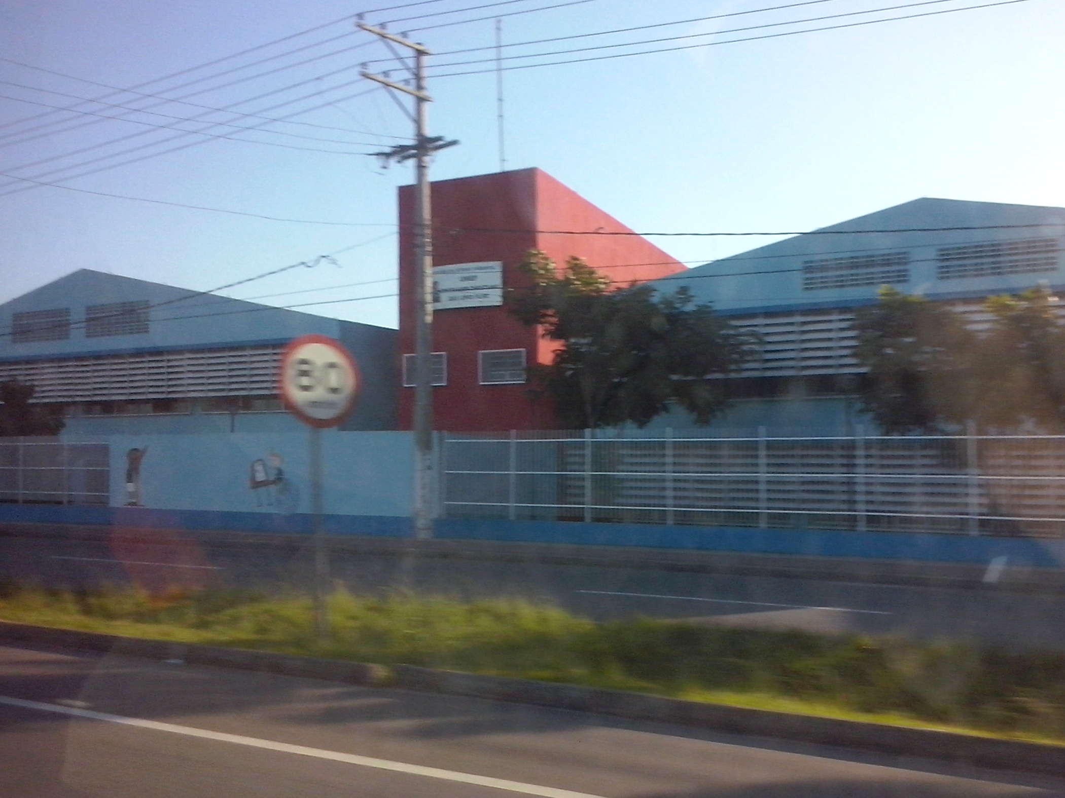 View of the UMEF (municipal unit of primary education) Governador Cristiano Dias Lopes Filho, in Vila Velha, Espírito Santo, Brazil.